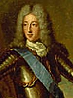 Picture of Louis II de Bourbon, Prince of Condé. by age